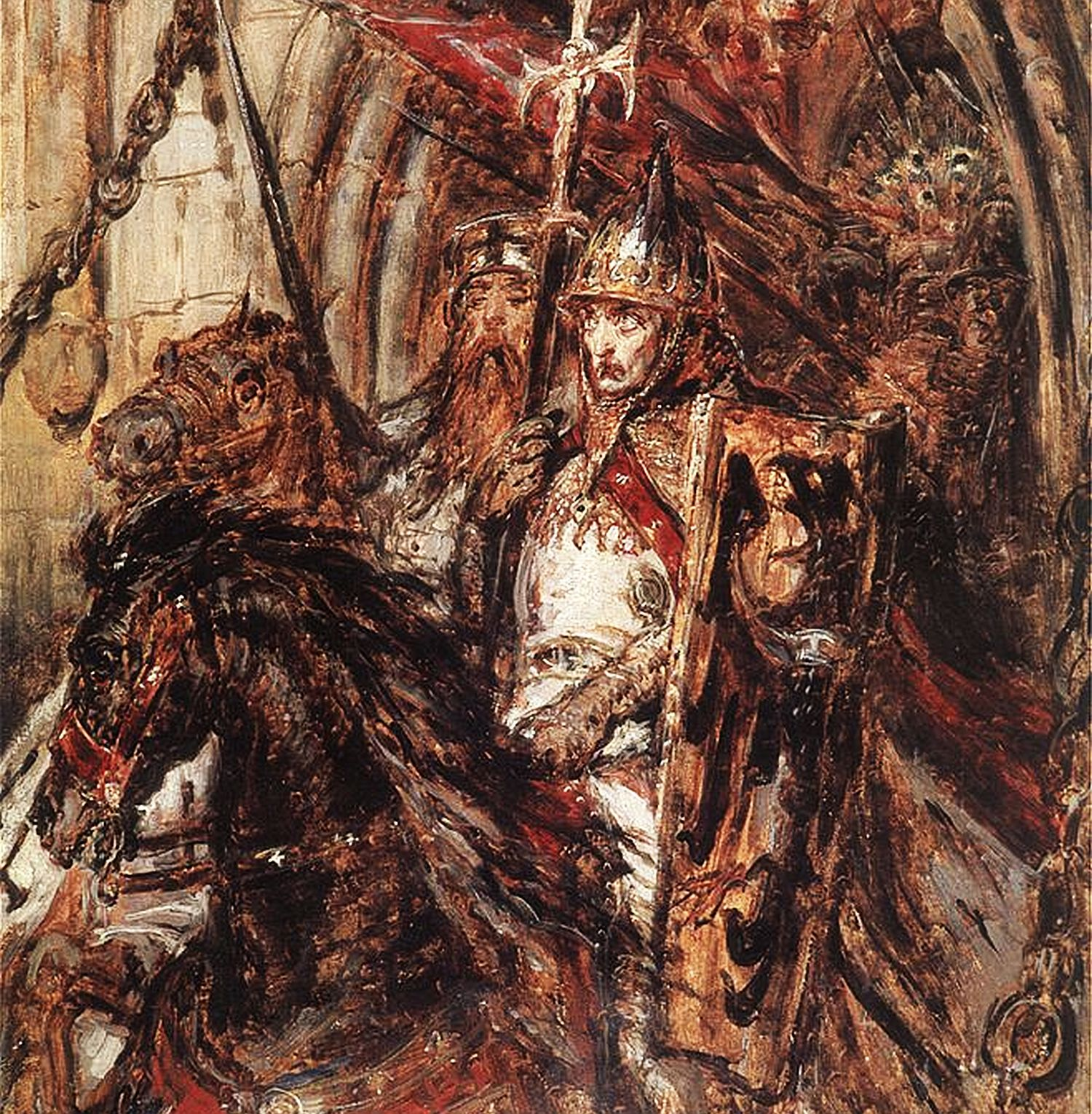 Henry II the Pious (1196/1207-1241), of the Silesian line of the Piast dynasty, Duke of Poland and Duke of Silesia